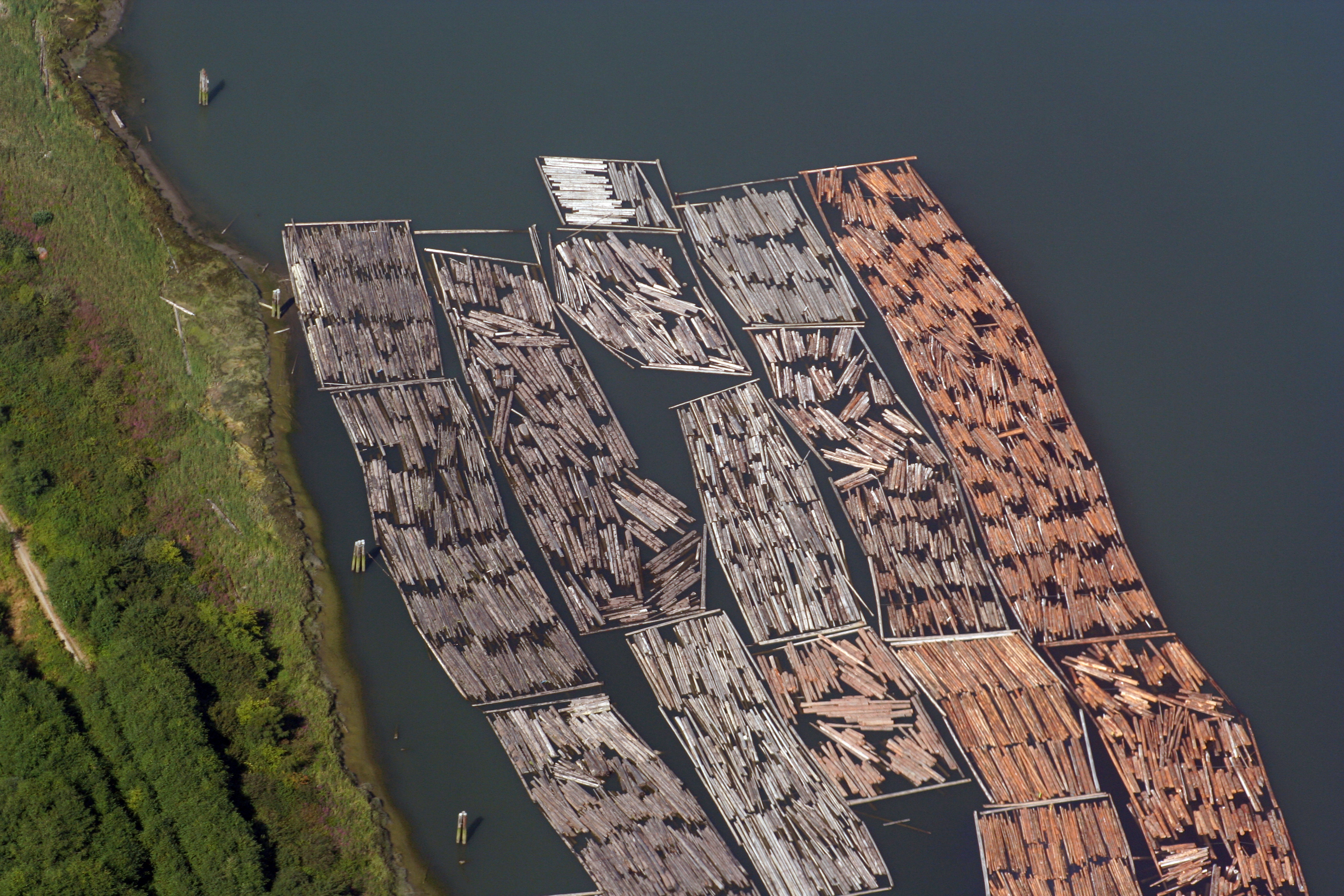 Timber being floated to Vancouver, Canada.